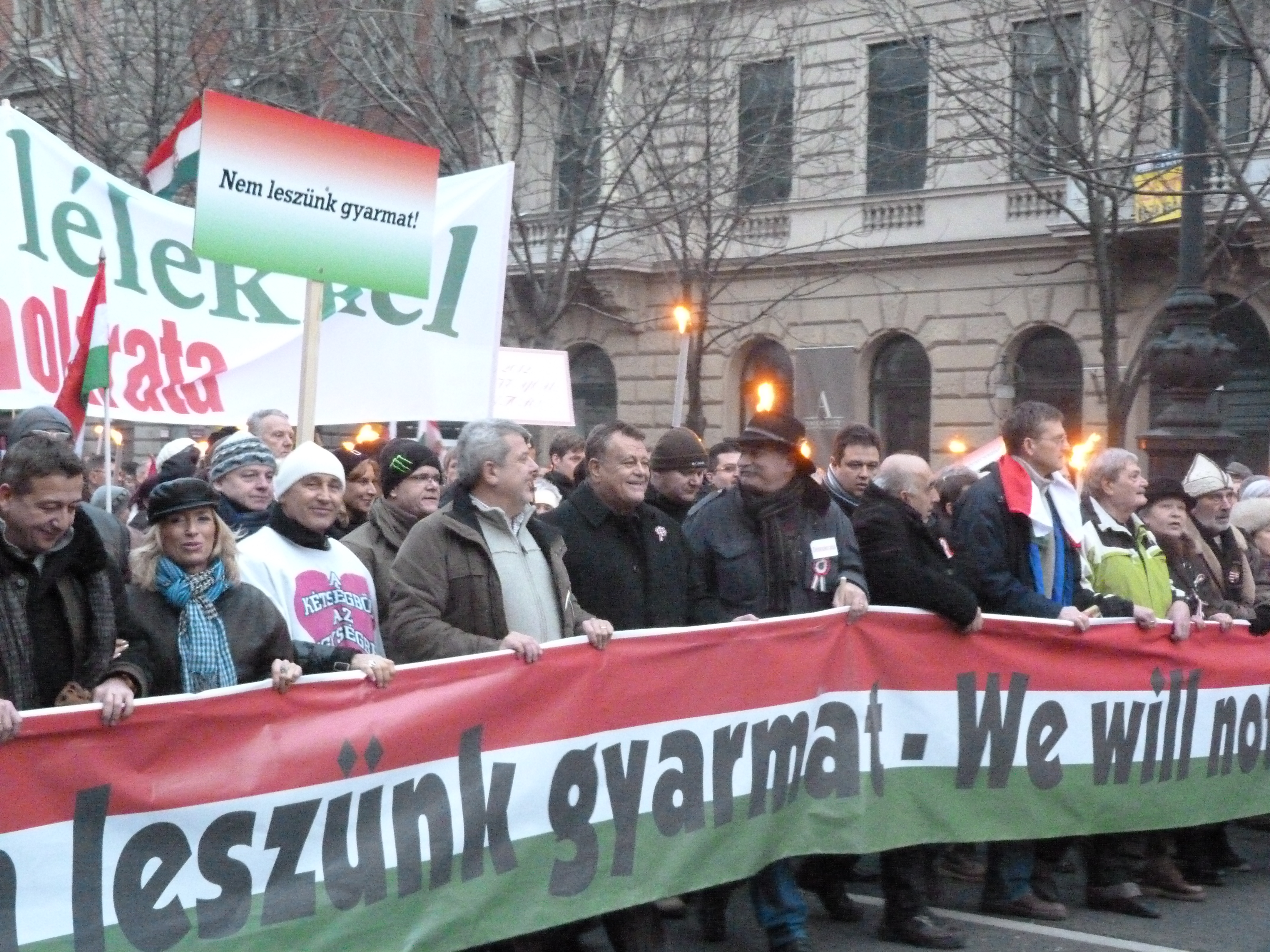 Live on the 21st of January, 2012. Budapest, Hungary. On the Andrássy avenue at the Rózsa street.